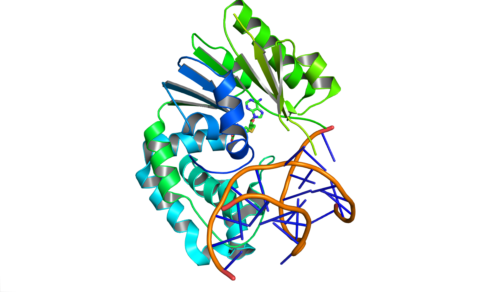 An image of E.coli DNA adenine methyltransferase is displayed here using PDB identifier 2G1P. The catalytically competent methylase is shown here bound to duplex DNA with the target adenine base represented by a blue stick, flipped out of the active site in the presence of the inhibitor, sinefungin.